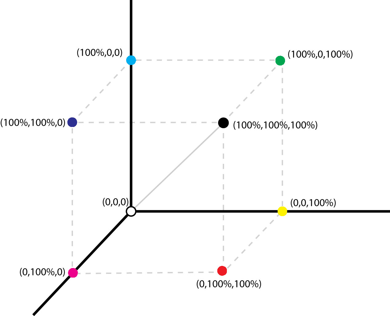 CMY cube